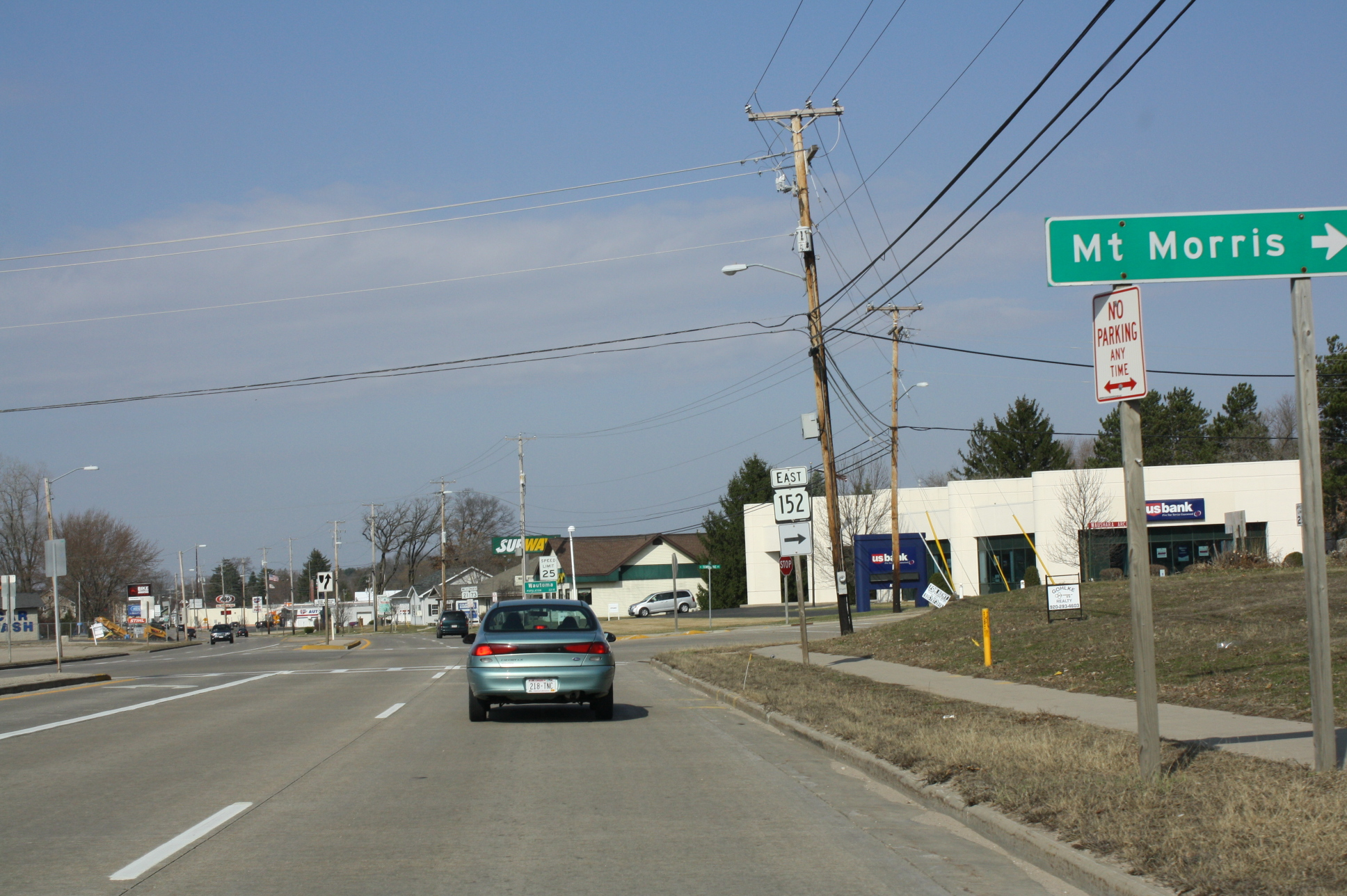 Looking at the sign for the western terminus on Wisconsin Highway 152 from Wisconsin Highway 21 in Wautoma, Wisconsin.